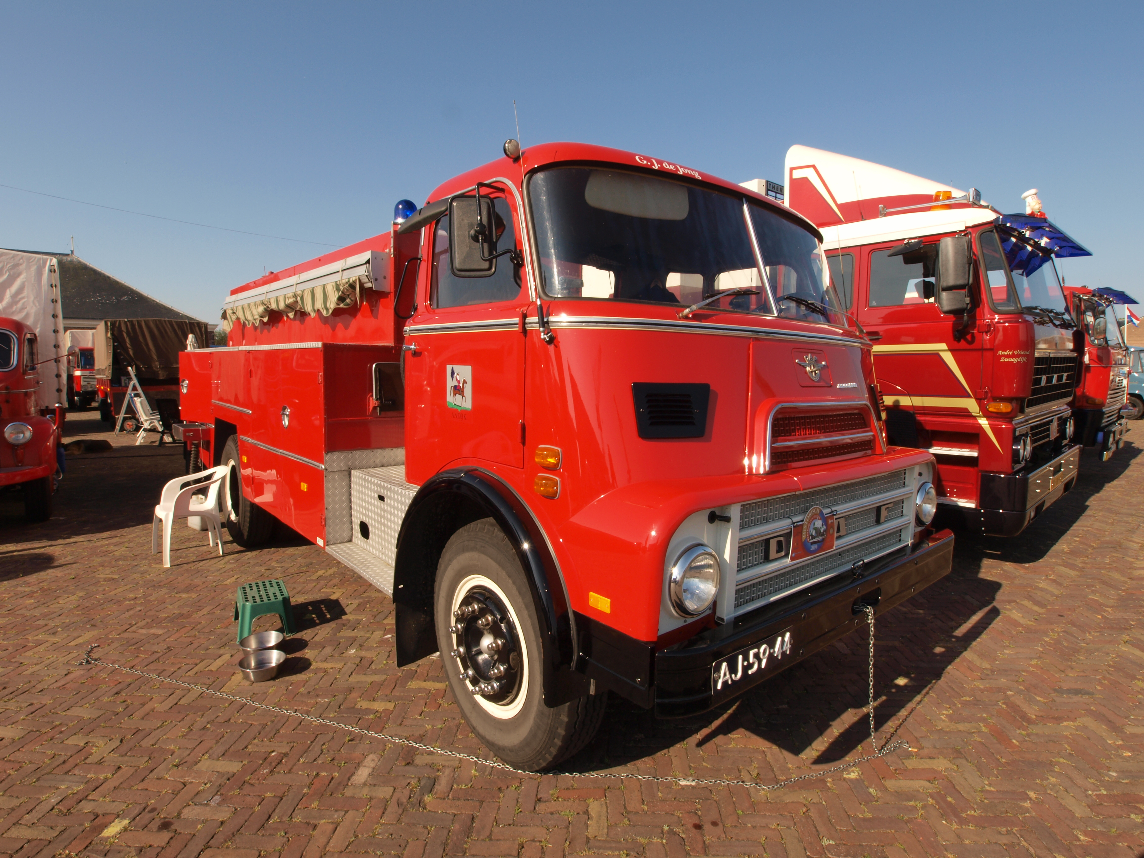 Photographed at Den Helder, The Netherlands. OLYMPUS DIGITAL CAMERA